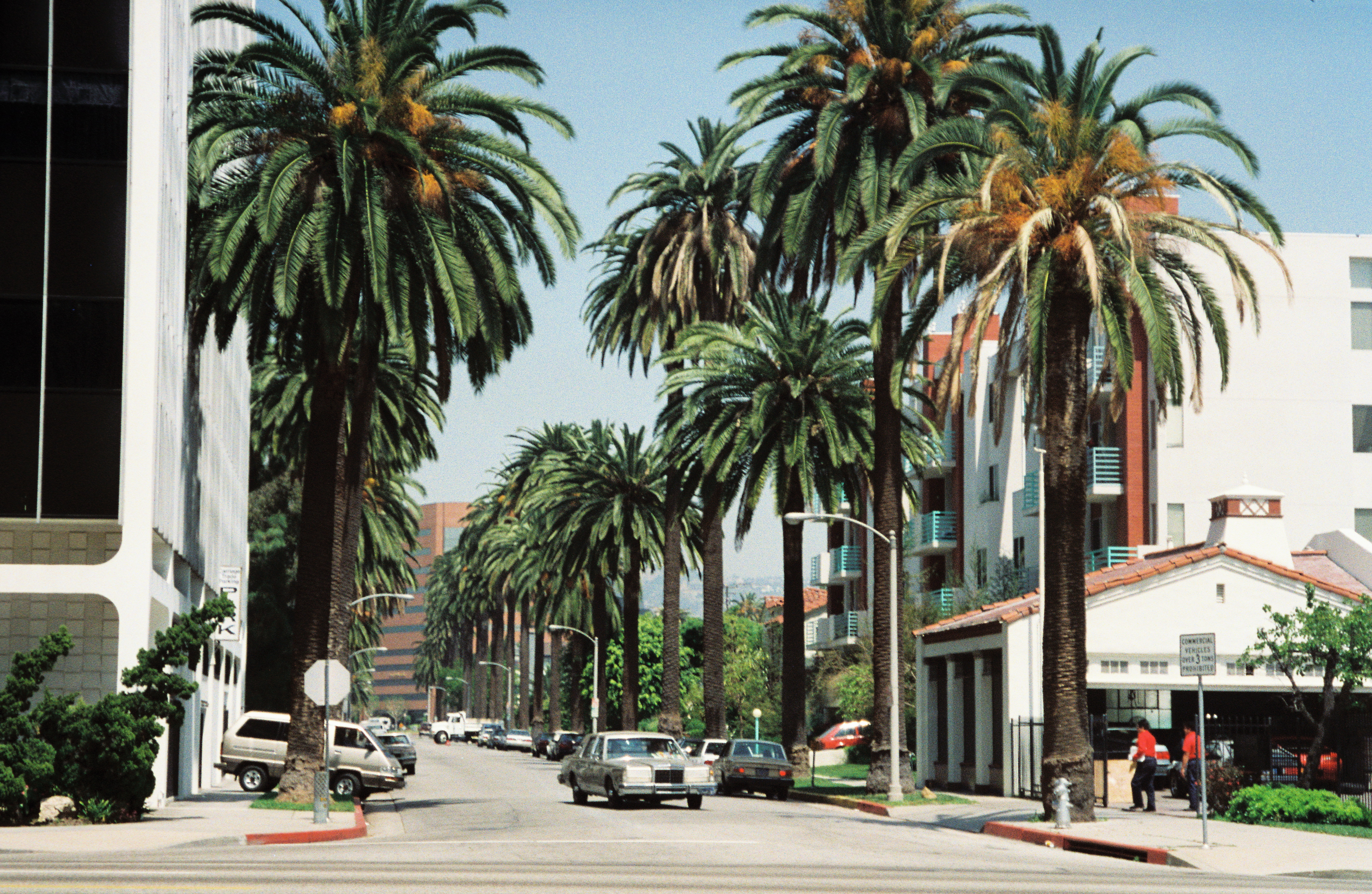 Beverly Hills